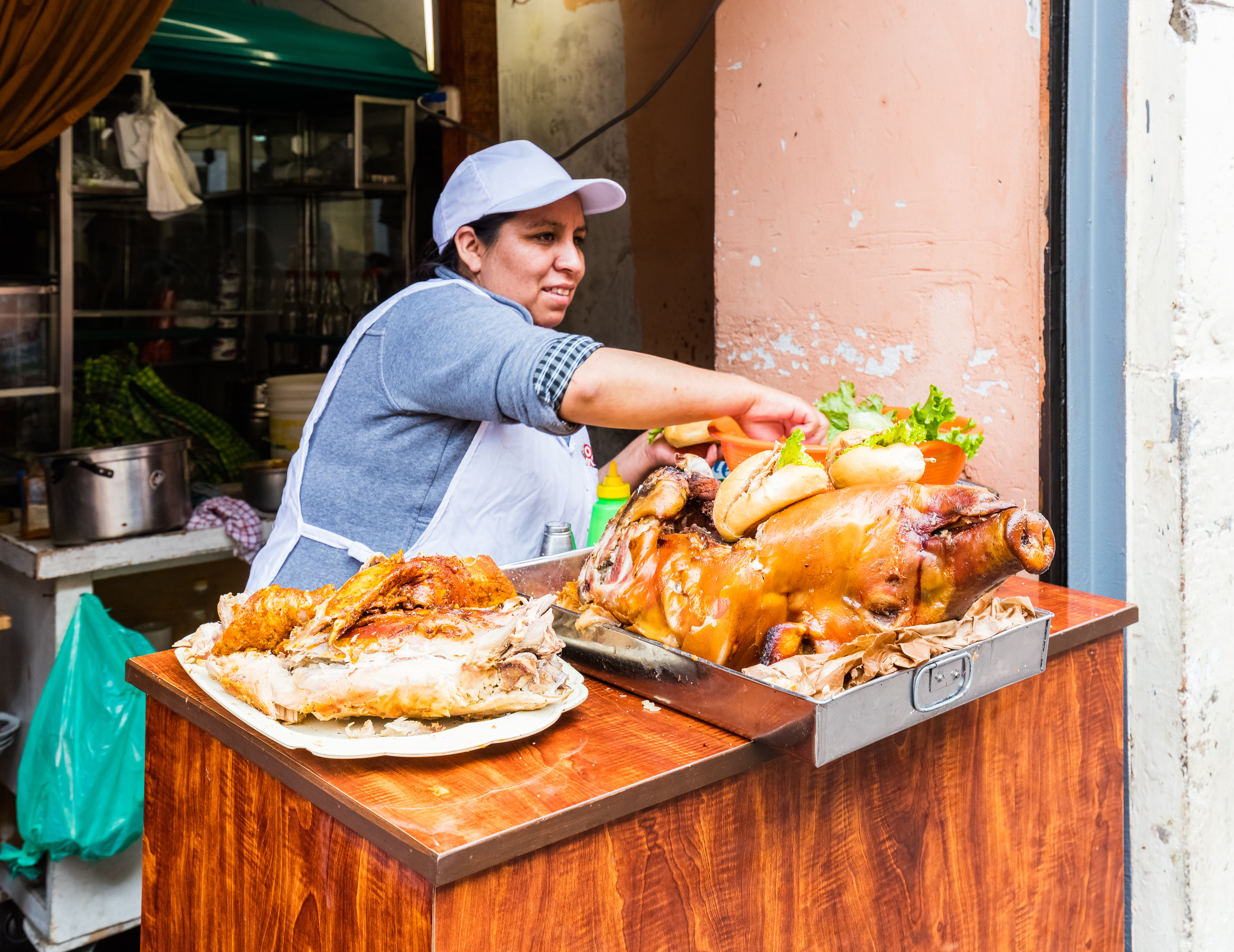 Food seller, Jirón Ancash street, Lima, Peru